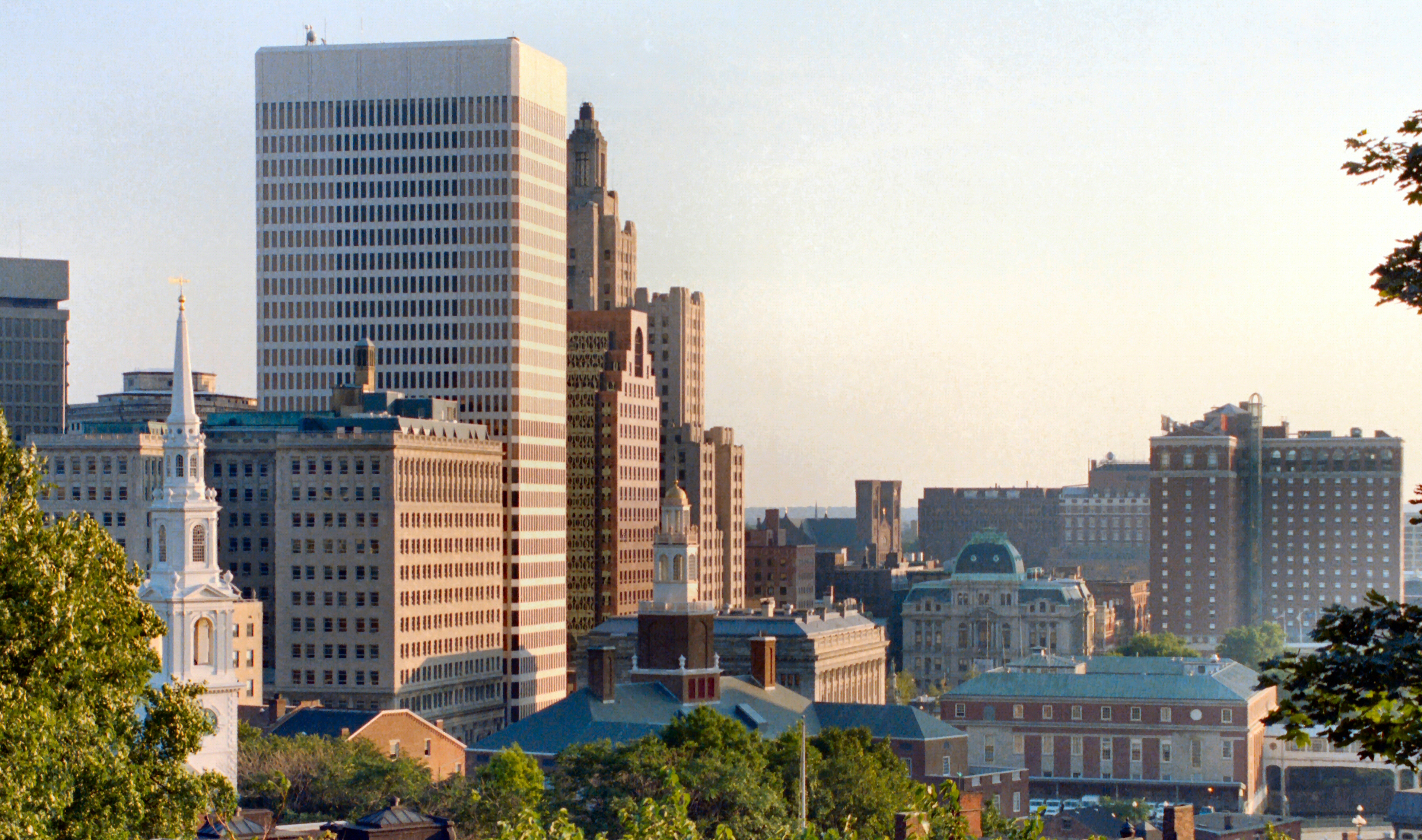 A view of the Providence, Rhode Island skyline.